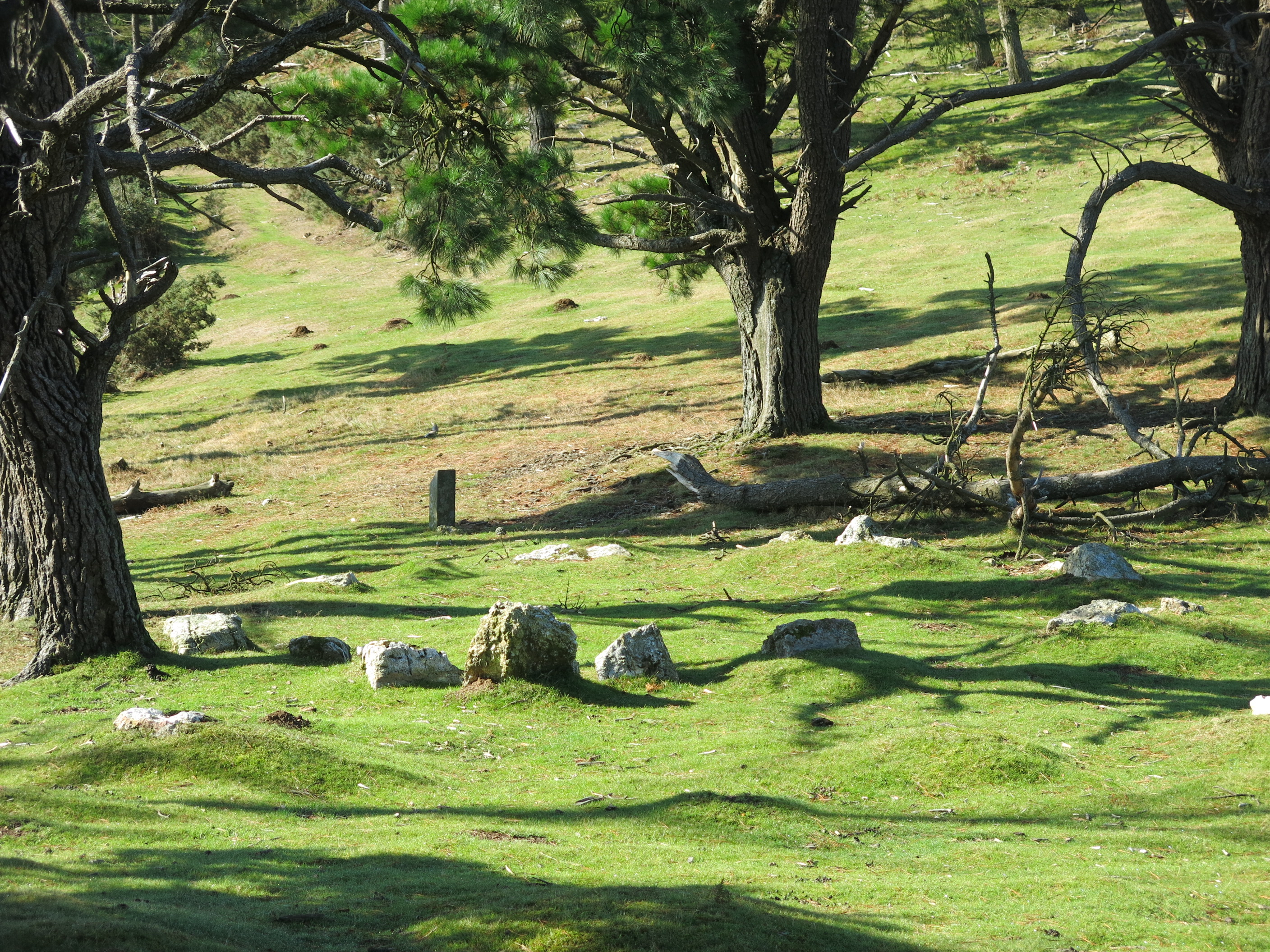 Cromlech of the Ibardin pass.)